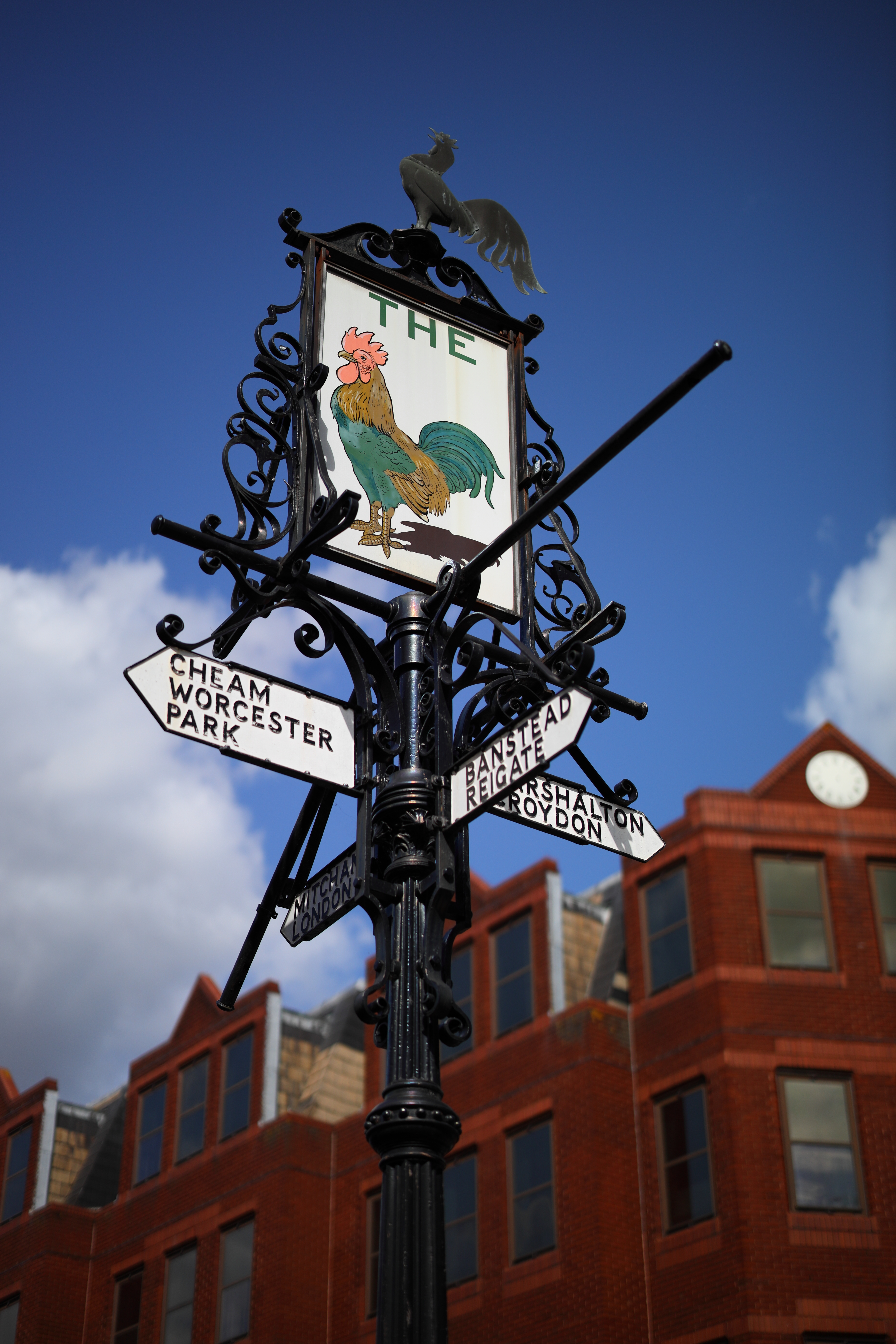 The Cock sign on Sutton High Street Wikidata has entry Q66479040 with data related to this item.